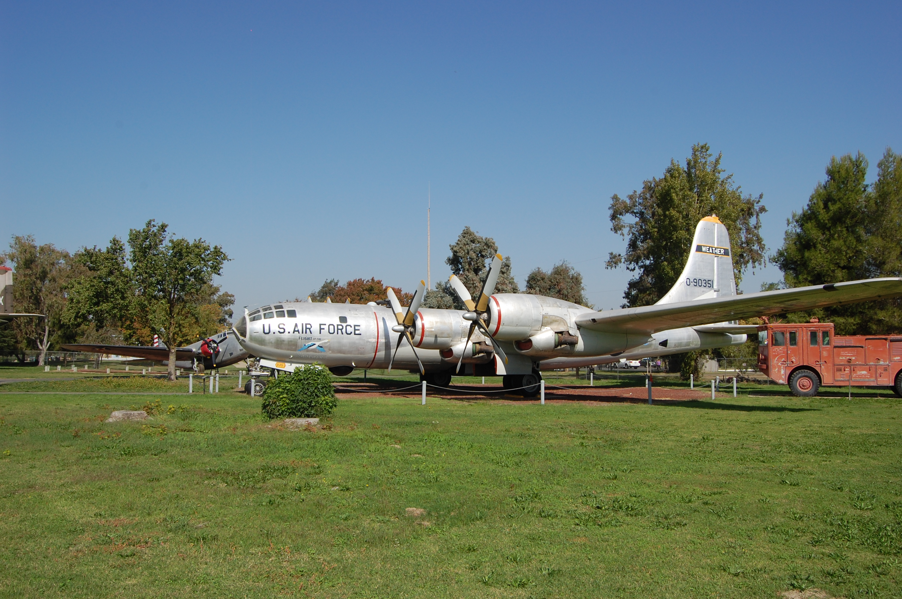 A Boeing B-50 Stratofortress at Castle Air Museum